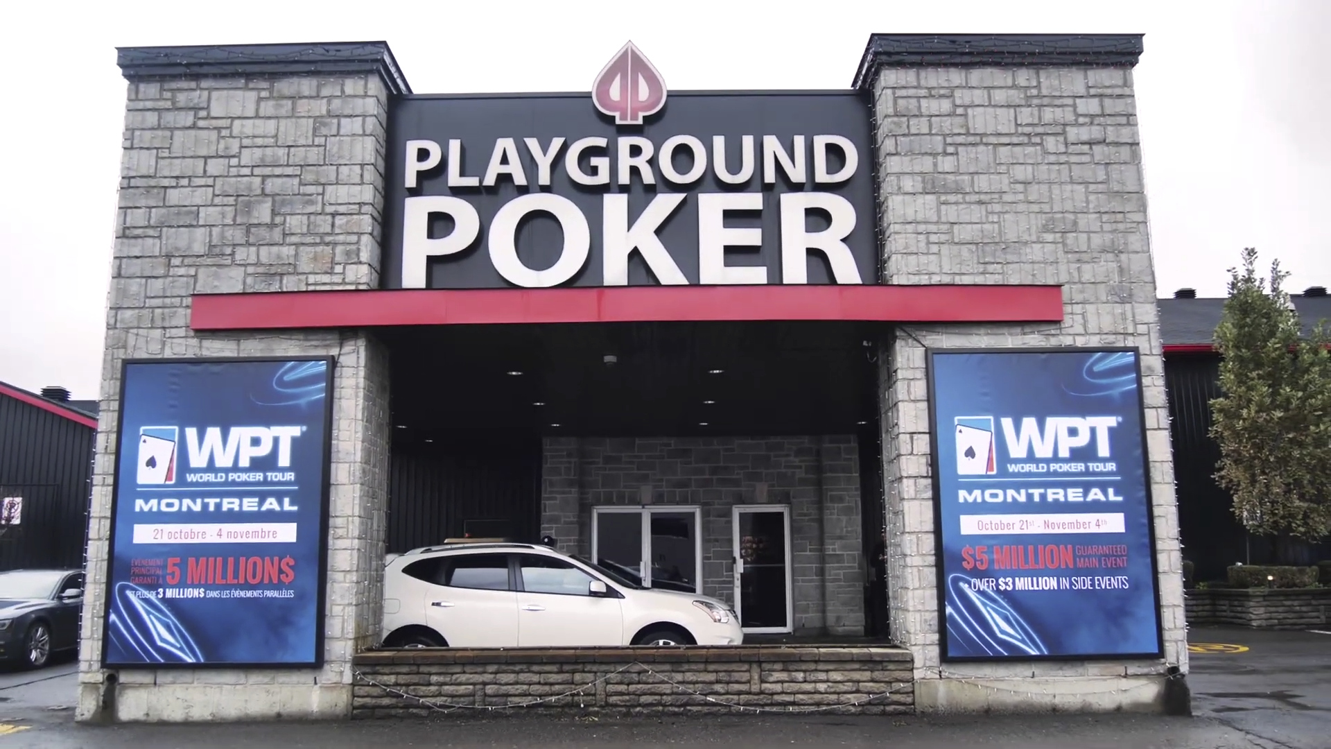 1500 QC-138 C, Kahnawake, QC J0L 1B0, Canada 97GV+PF Kahnawake, Quebec, Canada